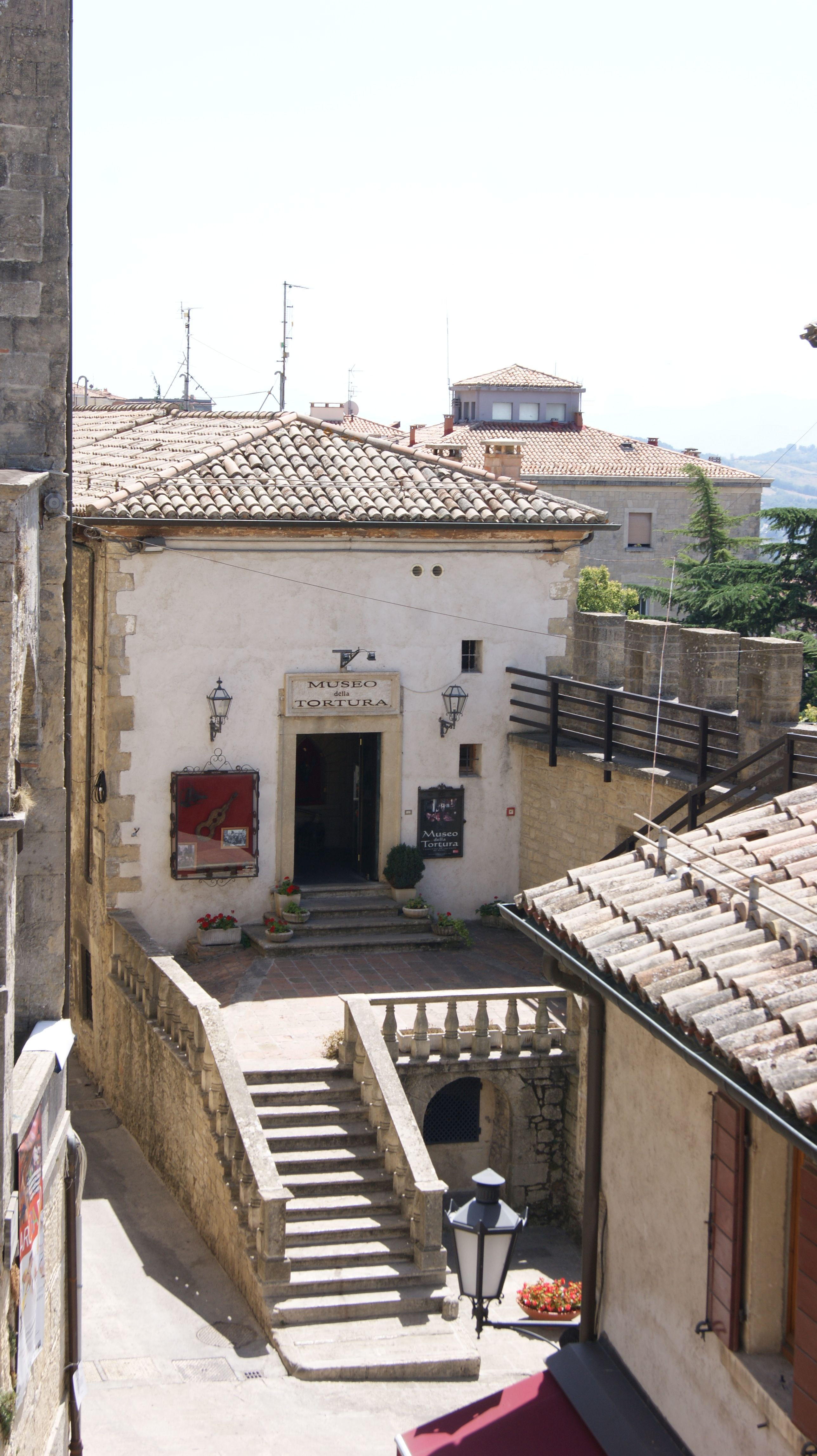 Torture Museum in San Marino.